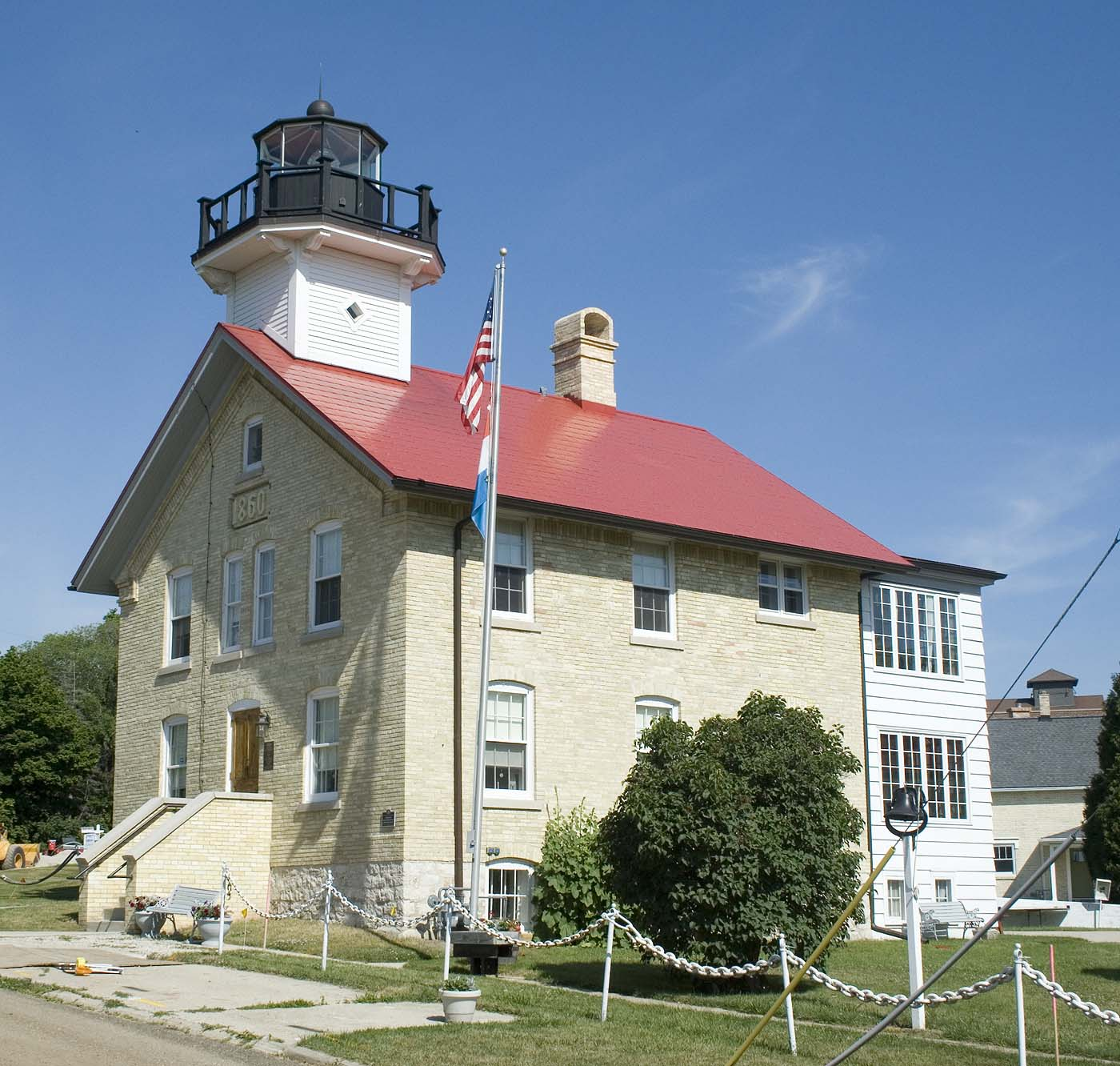 Port Washington Light Station, Registered Historic Place, Port Washington, Wisconsin